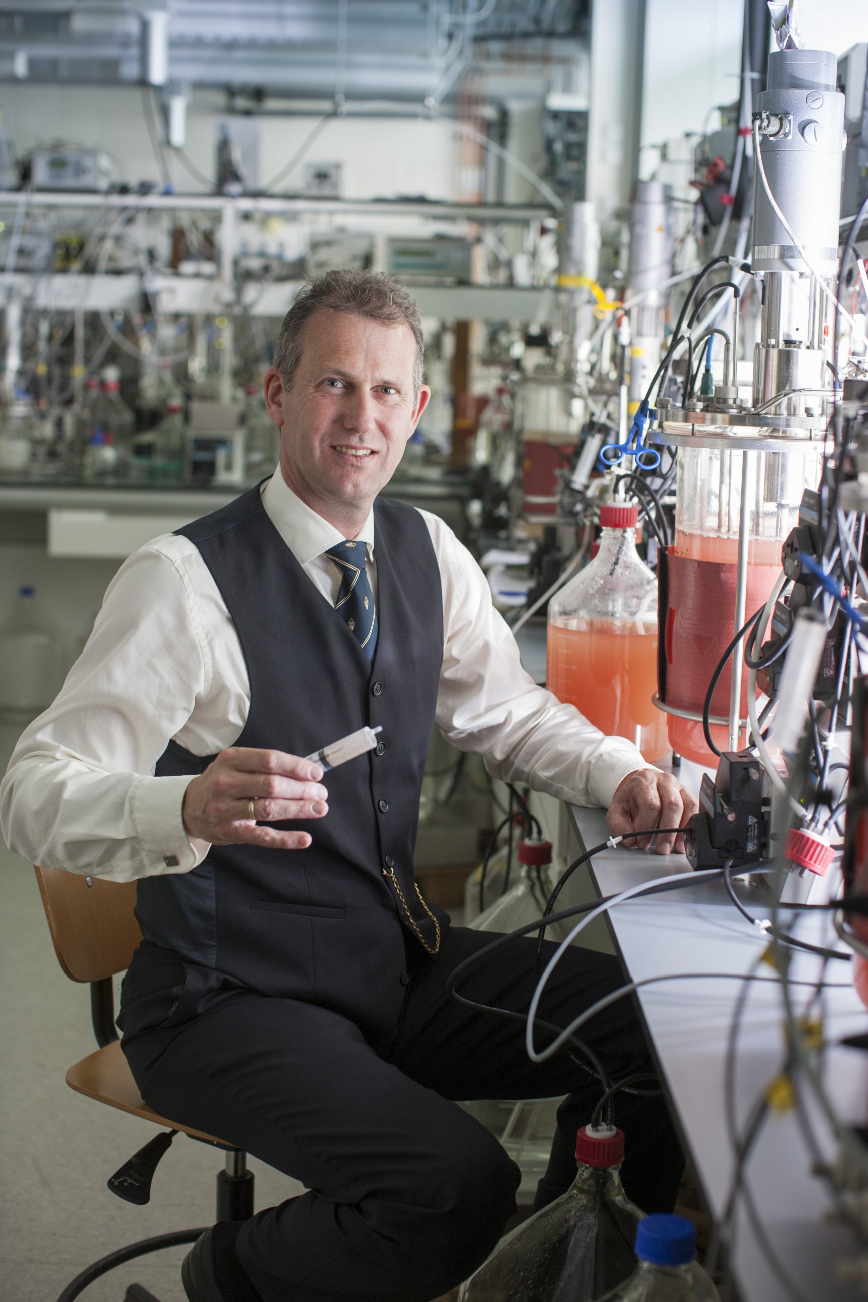 Dutch microbiologist Mike Jetten (2012)